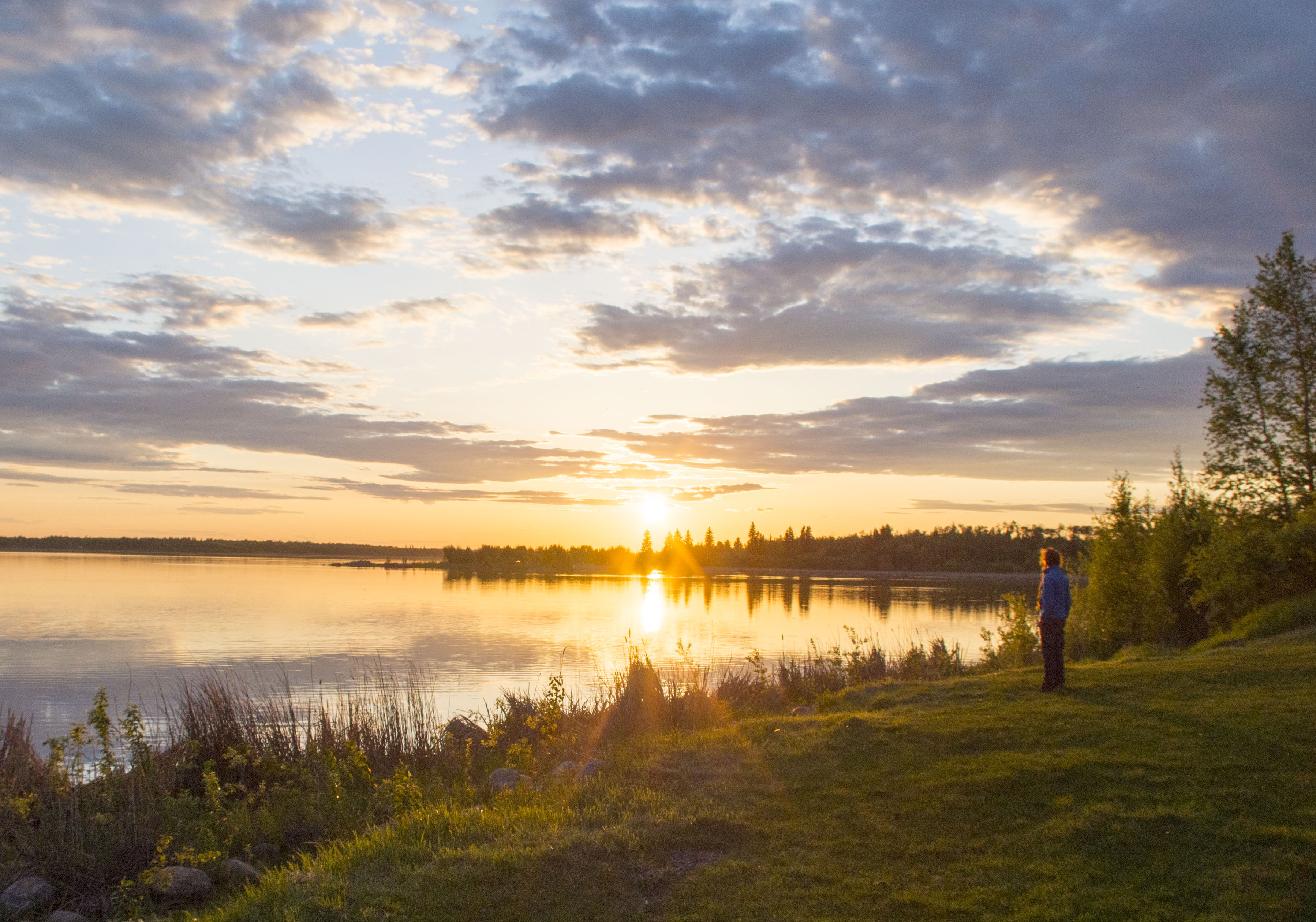 Elk Island National Park Sunset